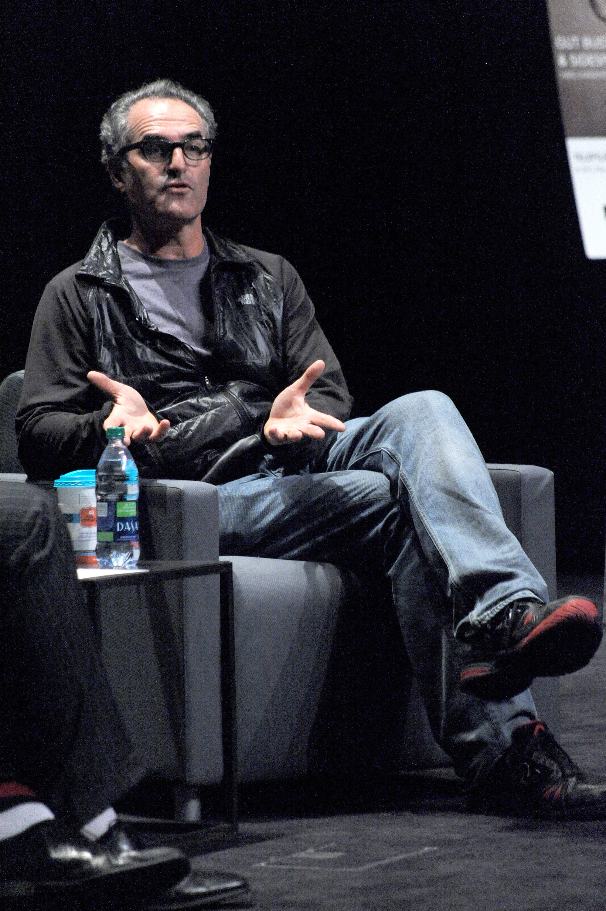 David Frankel, director of hit films THE DEVIL WEARS PRADA and MARLEY & ME at a CFC Masterclass for the Telefilm Canada Features Comedy Lab. To learn more about the Telefilm Canada Features Comedy Lab, please visit